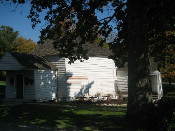 Jefferson Pools, Warm Springs, Virginia, USA. Gentlemen's pool house built in 1761 and the oldest spa building in the US. President Jefferson took the waters here.